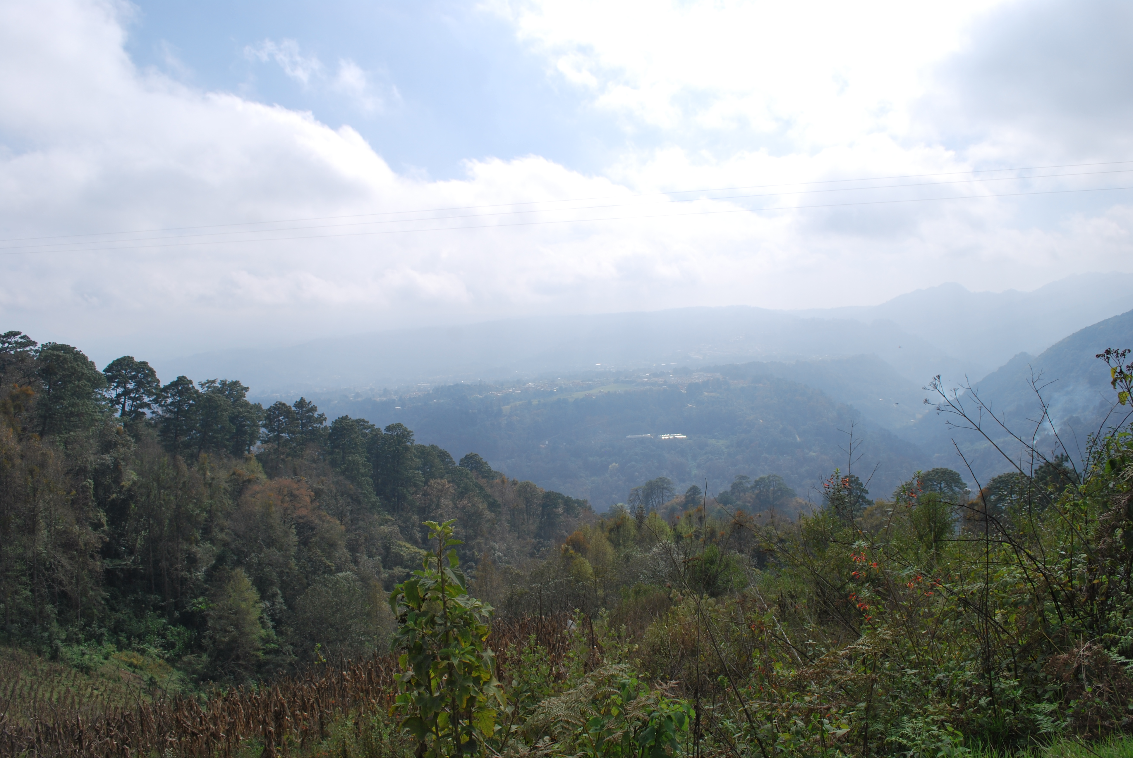 View of landscape between Huauchinango and Naupan in Puebla, Mexico